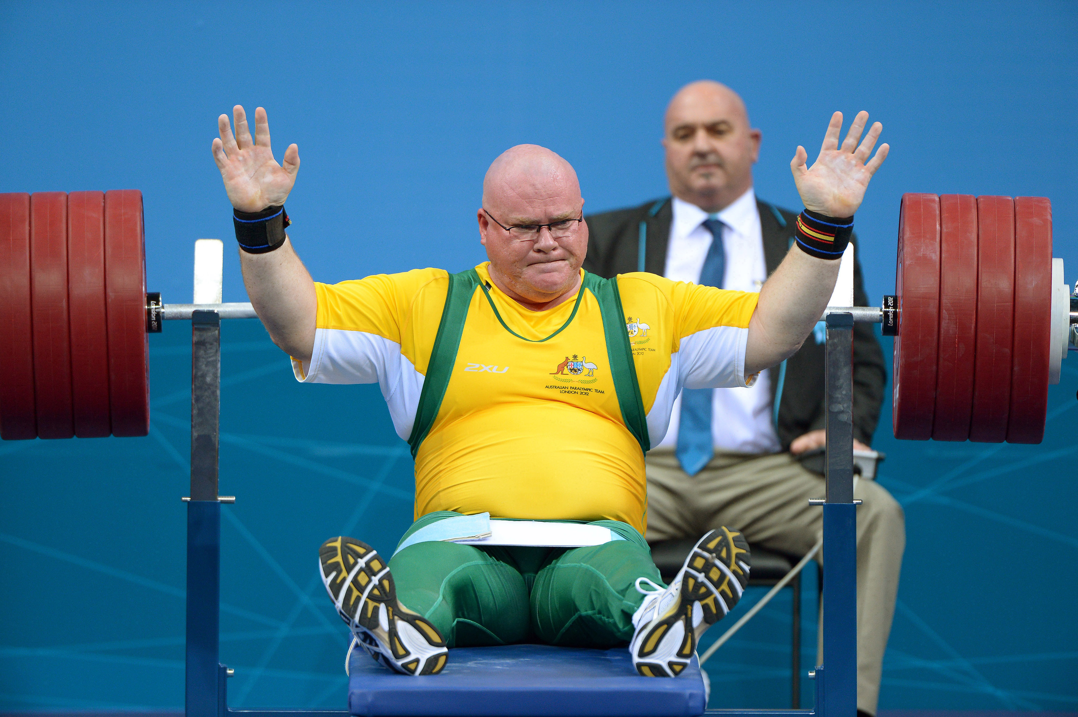 Photograph of Australian Paralympic team member Darren Gardiner at the 2012 Summer Paralympic Games in London